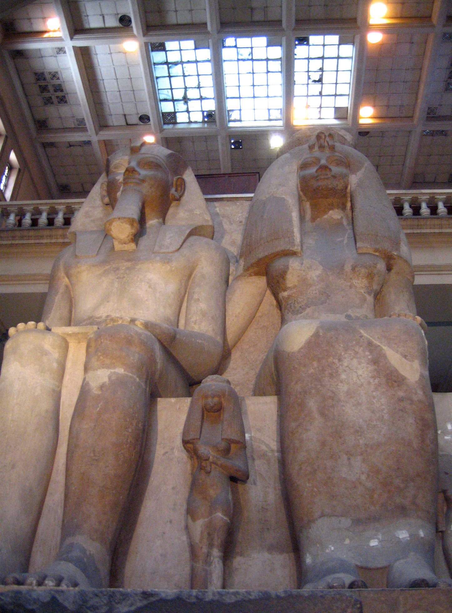 A colossal statue of Amenhotep III and Queen Tiye in the Cairo Museum, with Princess Henuttaneb, Kairo JE 33906